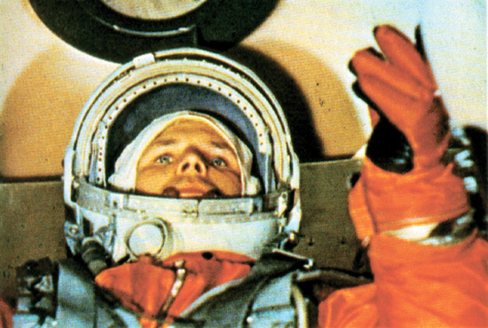 Yuri Gagarin before the start